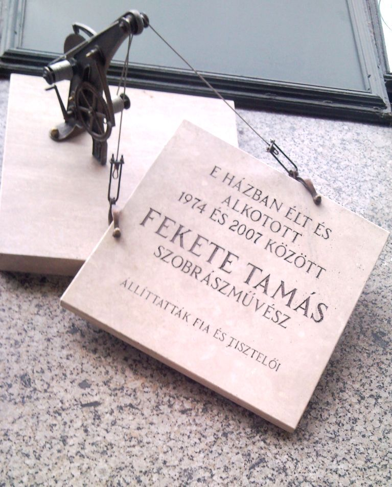 Tamás Fekete (sculptor) commemorative plaque in Budapest District V, Veres Pálné Street No 10.